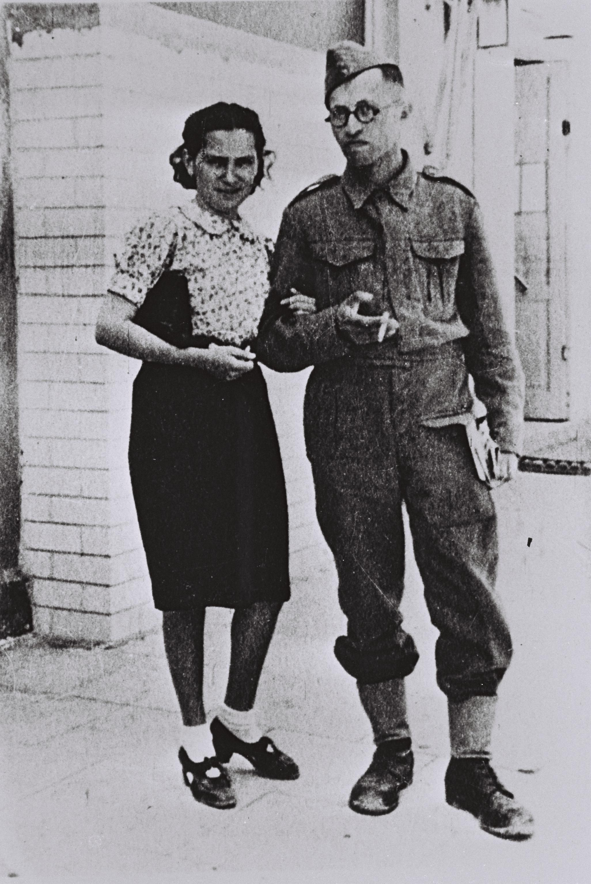 MENAHEM BEGIN IN POLISH ARMY UNIFORM WITH WIFE ALIZA IN TEL-AVIV. COURTESY JABOTINSKY INSTITUTE. מנחם בגין במדי הצבא הפולני עם רעייתו עליזה , בתל אביב.